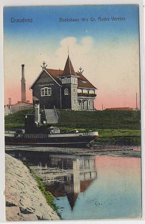 Graudenzer Ruderverein w Grudziądzu druga przystań